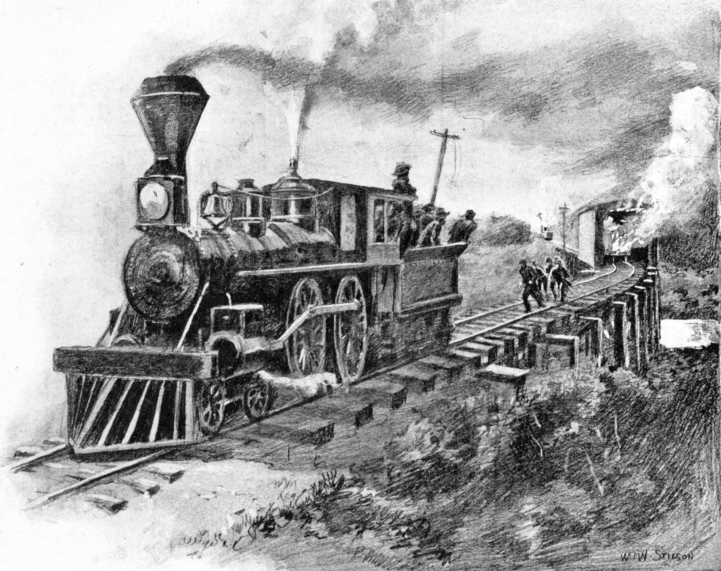 The Mitchel Raiders set a train car on fire in an attempt to set a covered railway bridge ablaze and thwart pursuit, from Deeds of valor; how America's heroes won the Medal of Honor, published in 1901. The event is referred to now as the Great Locomotive Chase, but Deeds of Valor refers to it as "The Mitchell (sic) Raid".